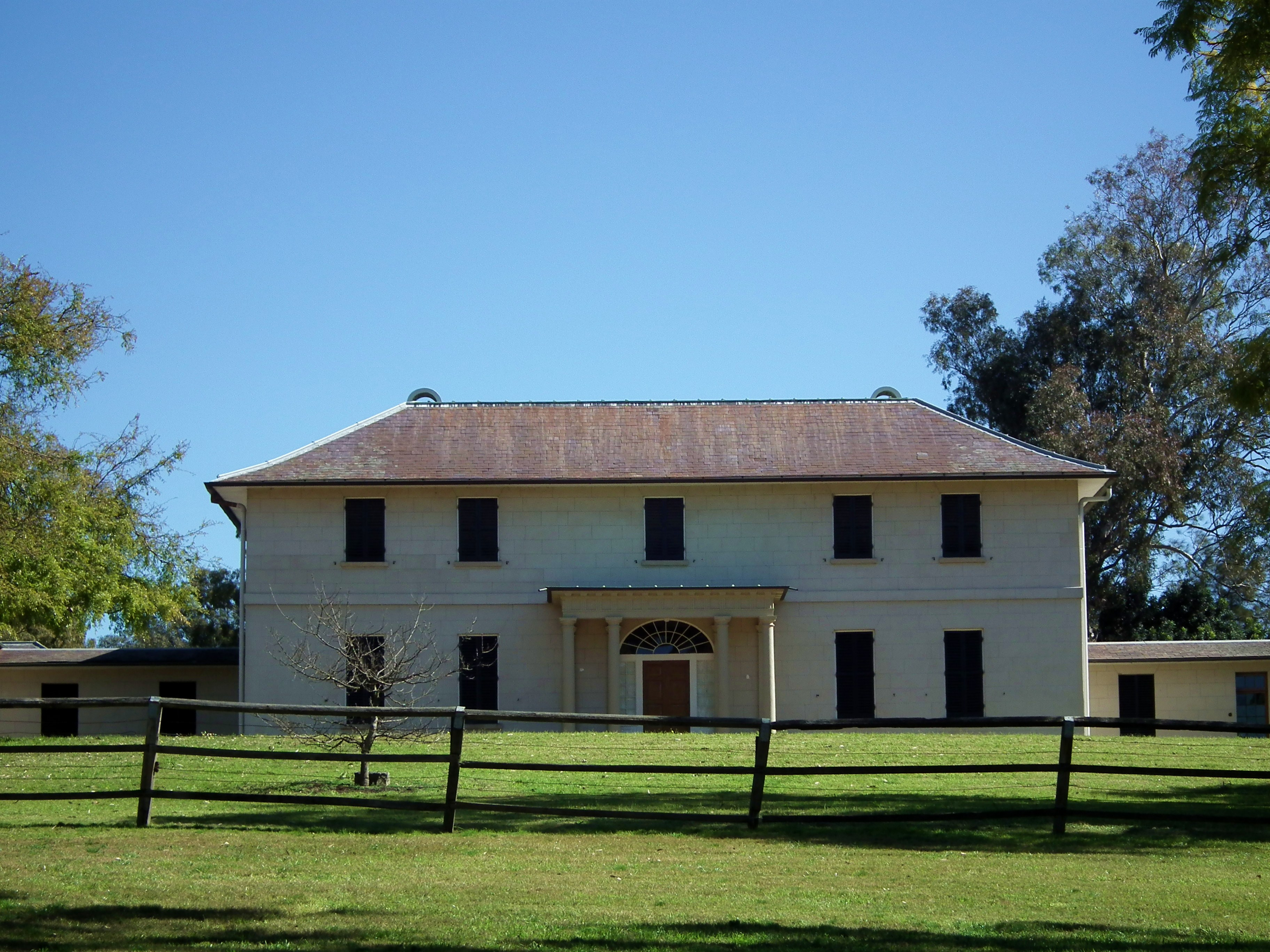 Old Government House - Parramatta Park, Parramatta, New South Wales. Built in 1799 by Governor Hunter to replace the previous house built by Governor Phillip in 1790. In 1818 Governor Macquarie extended the house to the size it is today. It is the oldest surviving publicly owned building in Australia.